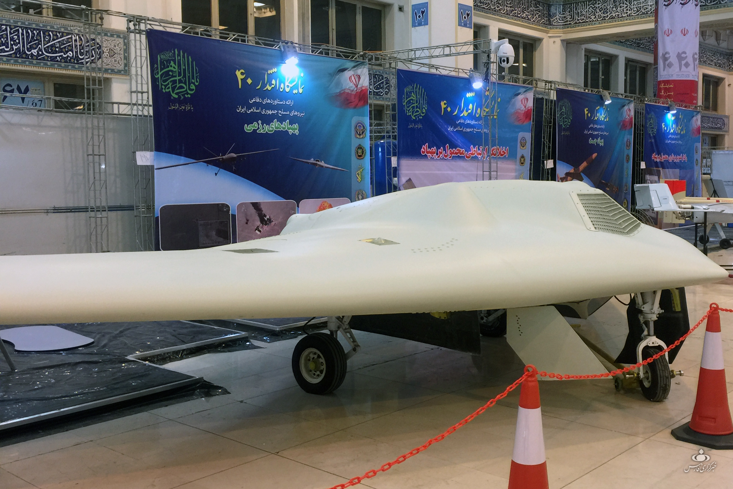 Shahed 171 Simorgh ("Iranian RQ-170") seen during the Eqtedar 40 defence exhibition in Tehran.